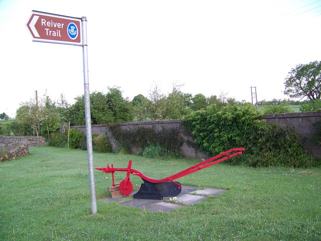 Sign for the Reivers' Trail, Rowanburn The Reivers' Trail runs from the Irish to the North Sea, through Cumbria, Dumfries, Borders and Northumberland. The Borders of England and Scotland, also called the 'Debatable Land', were controlled for four centuries by the reiver clans.